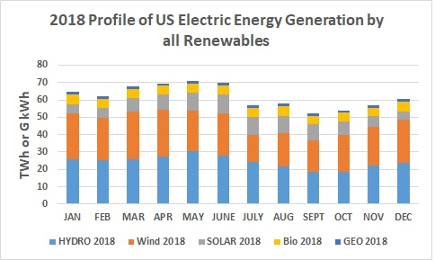 2018 Profile of US Electric Energy from all Renewables